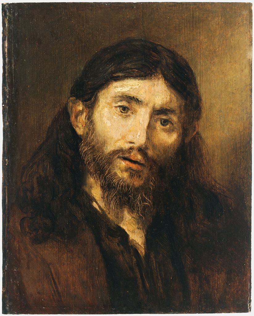 This image is available from the Netherlands Institute for Art Historyunder digital ID 232193. This tag does not indicate the copyright status of the attached work. A normal copyright tag is still required. See Commons:Licensing.